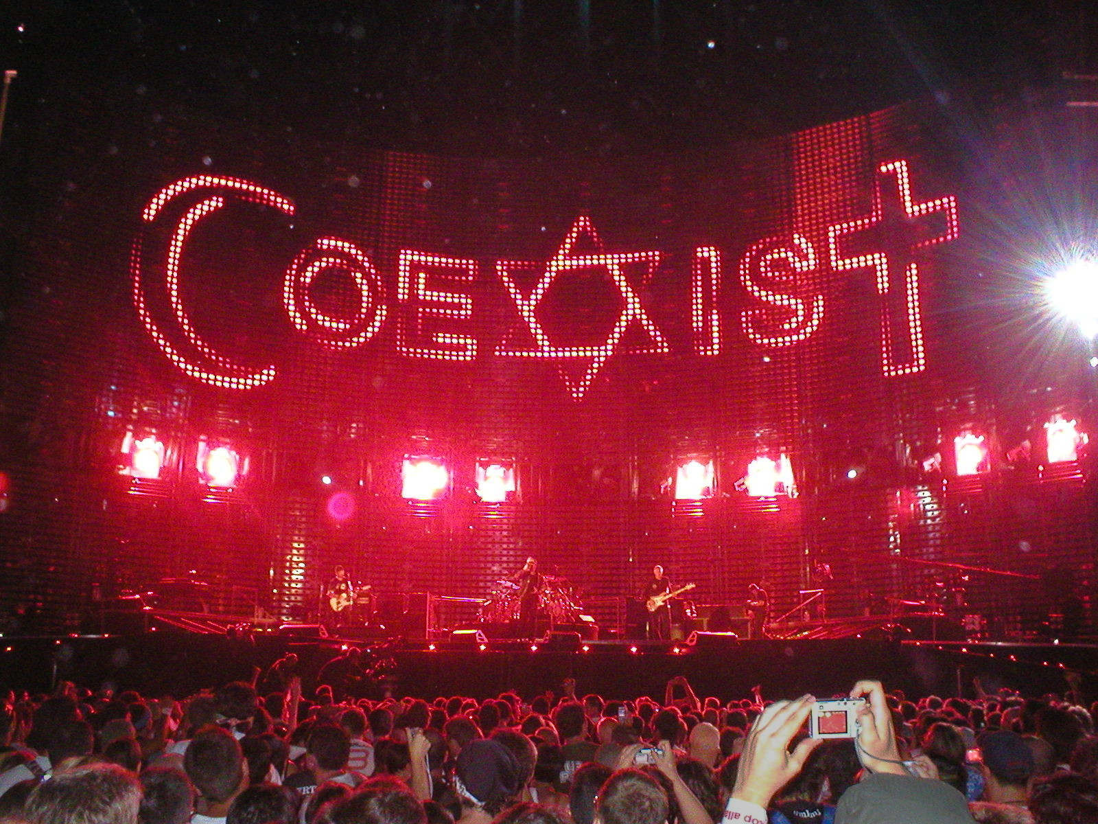 U2 Concert photo from Vertigo Tour, uploaded by photographer in Italy on Sep 22, 2009.